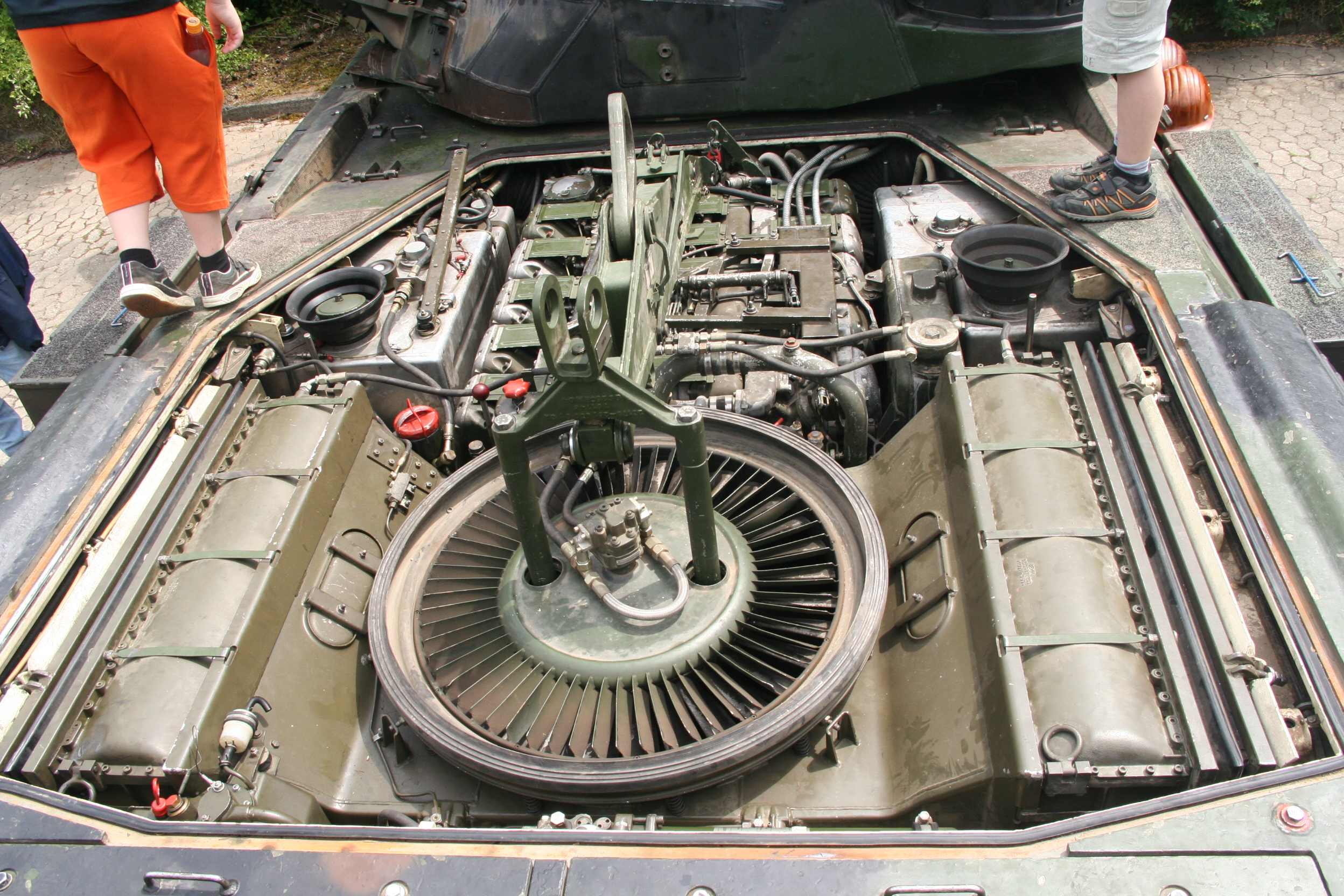 Gepard 1A2 Motor Gepard 1A2 Engine